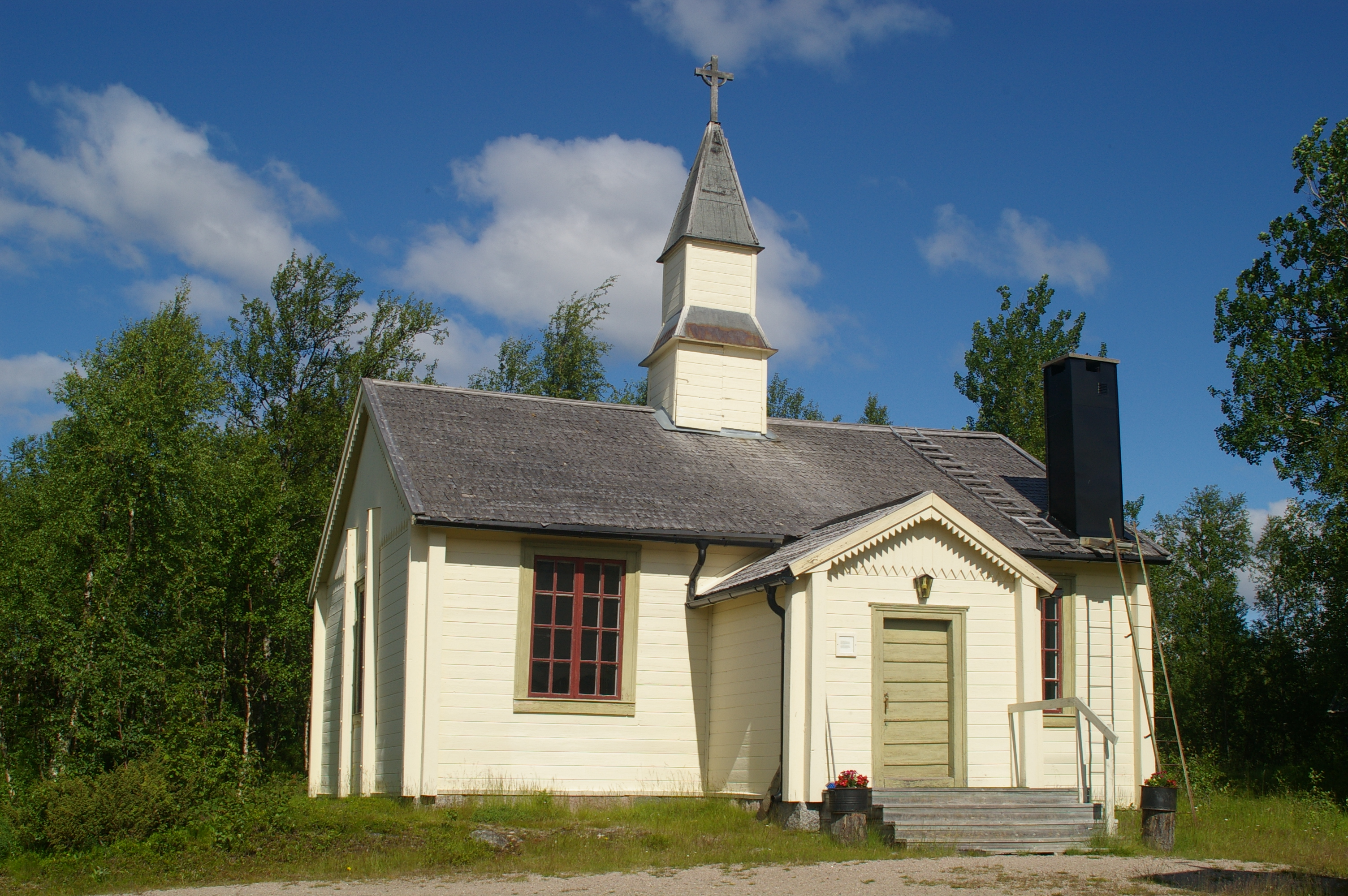 chapel above the lake at Jäckvik, Arjeplog Parish